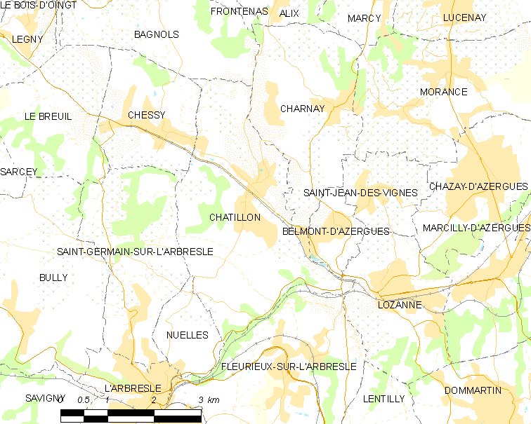 Map of French municipality